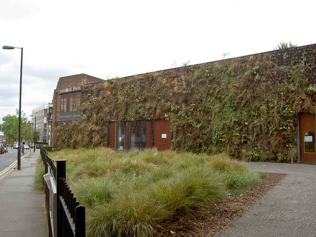 Green living wall on Paradise Park Children's centre Islington